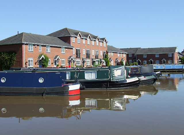 New canalside development at Market Drayton, Shropshire. Old derelict wharfs have been replaced with modern housing with convenient mooring facilities here on the Shropshire Union Canal.